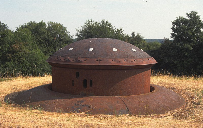 Maginot Line - Bloc 2 - lesser Ouvrage Immerhof.